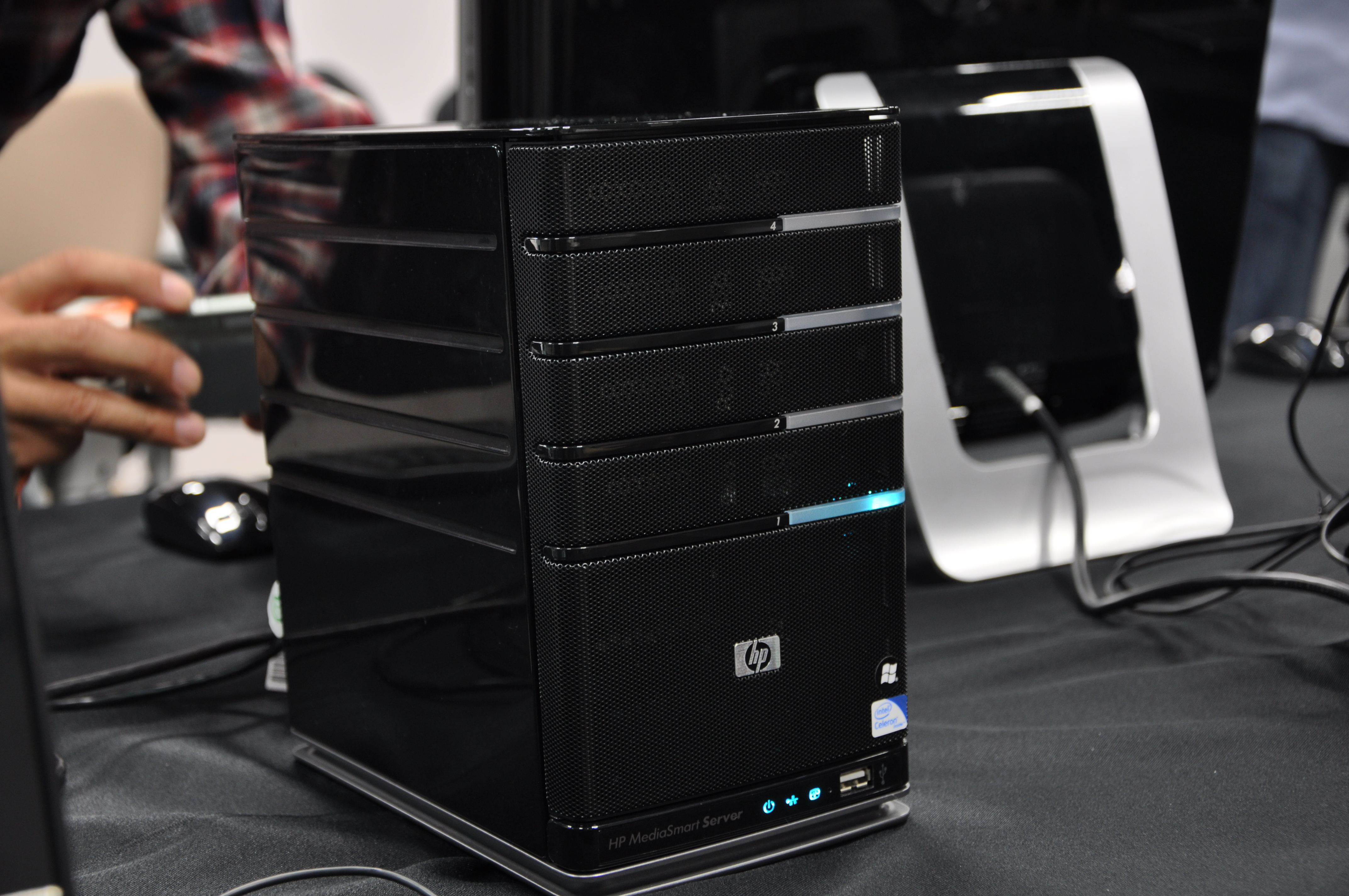 MediaSmart Server EX490_006